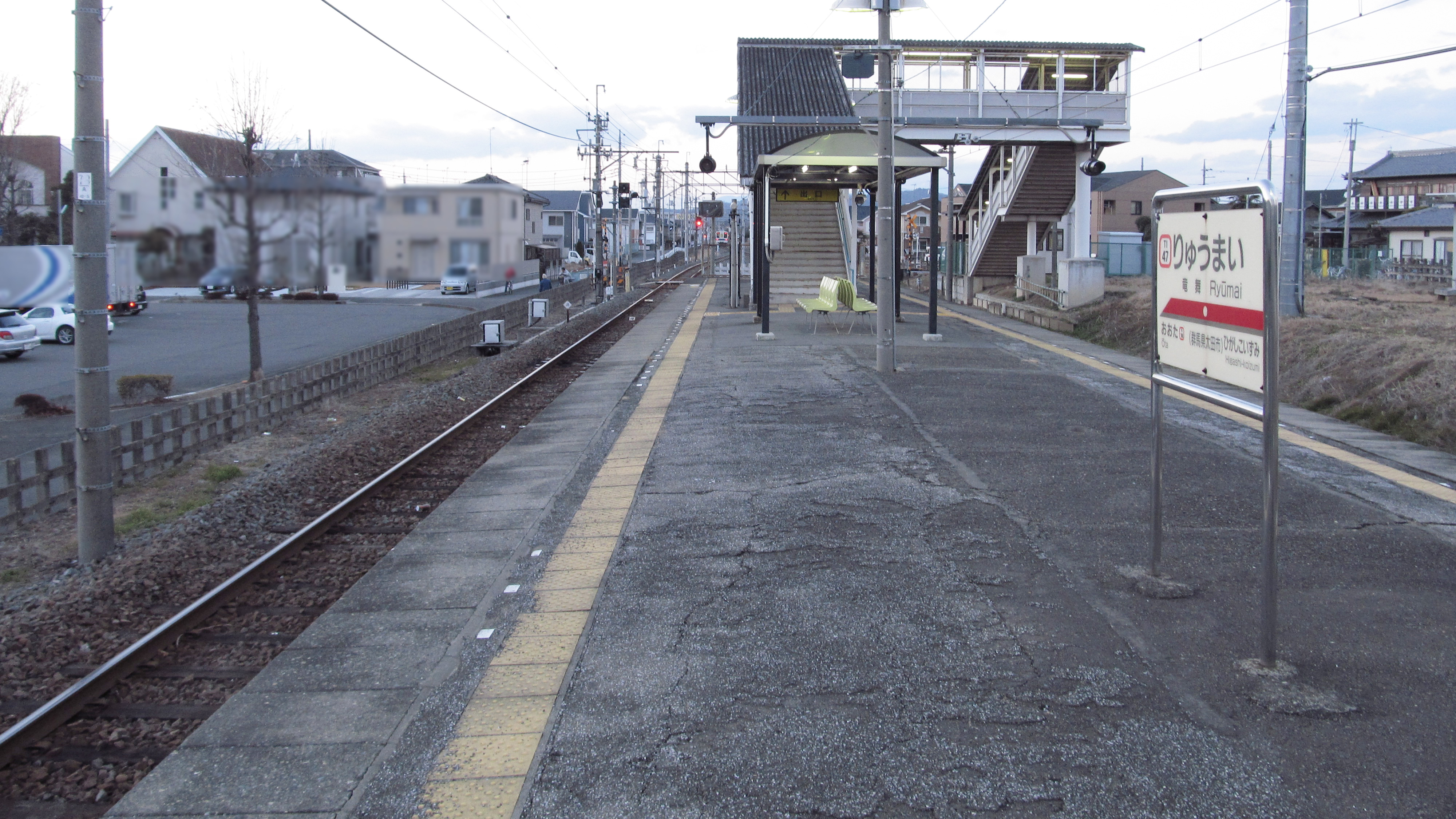 The platform at Ryūmai Station on the Tobu Railway Koizumi Line in Ōta city, Gumma prefecture, Japan